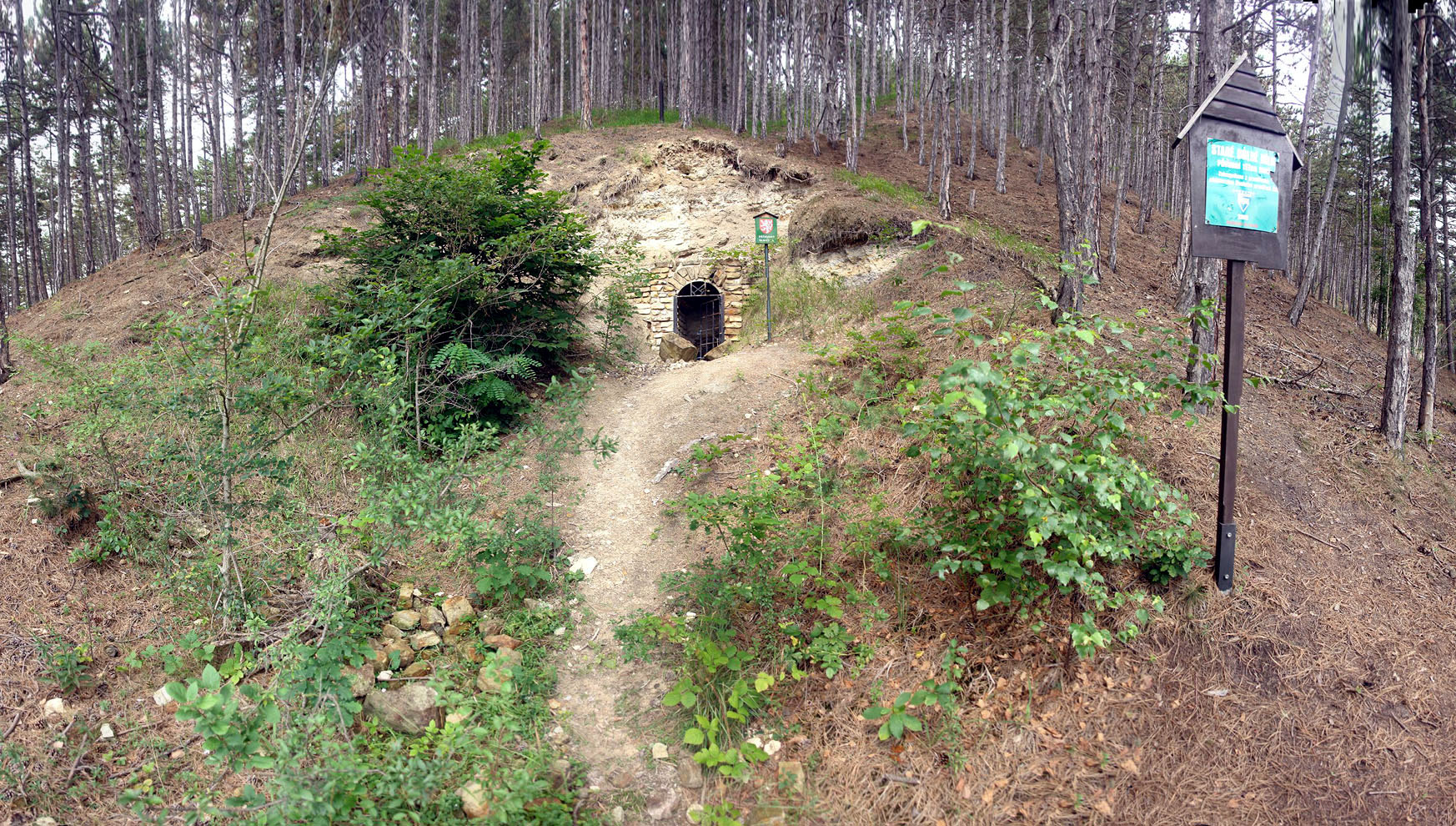 Natural monument Štola Stradonice near Stradonice in Louny District, Czech Republic